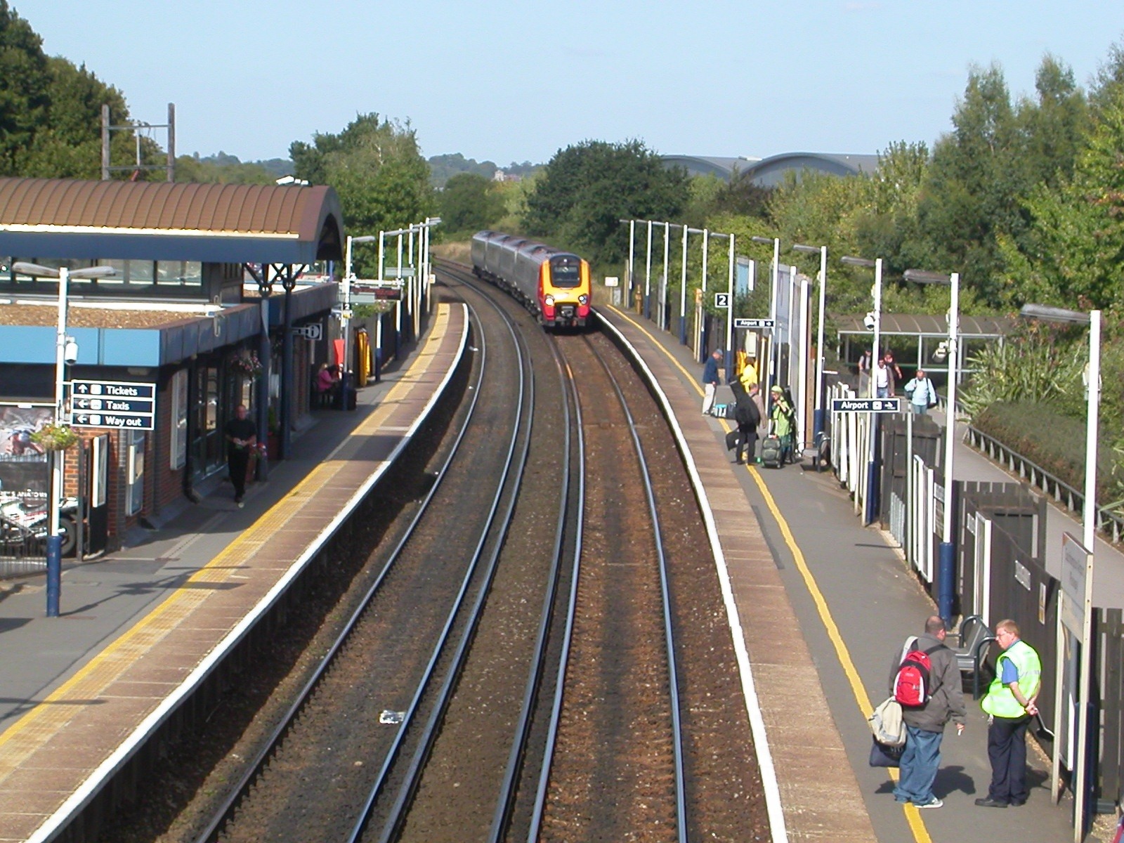 View of Southampton Airport Parkway station on 8th September 2006.